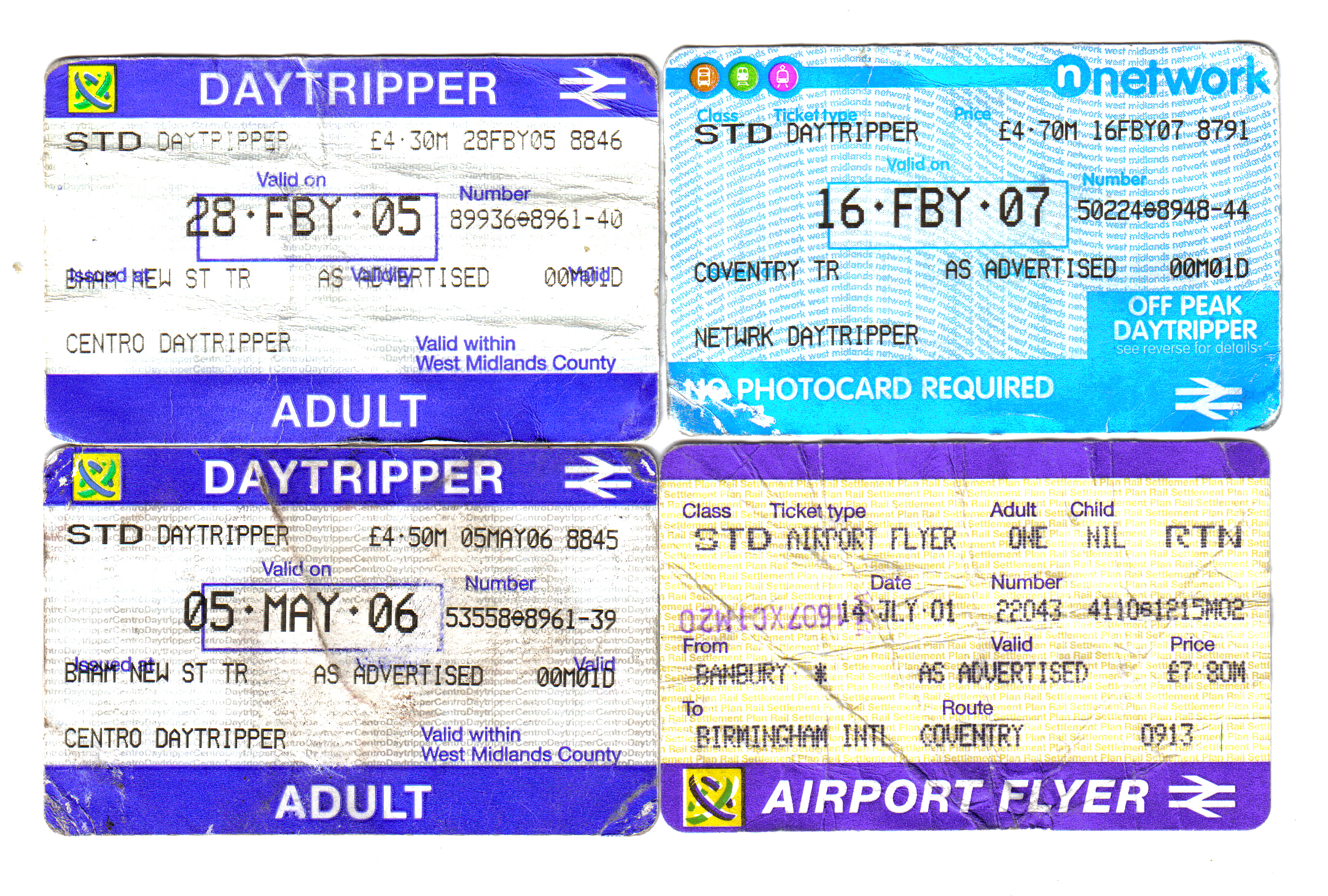 I bought these railway tickets, used them and copied them. They are not copyrighted because they are available to the general public and have no copyright notice on them.